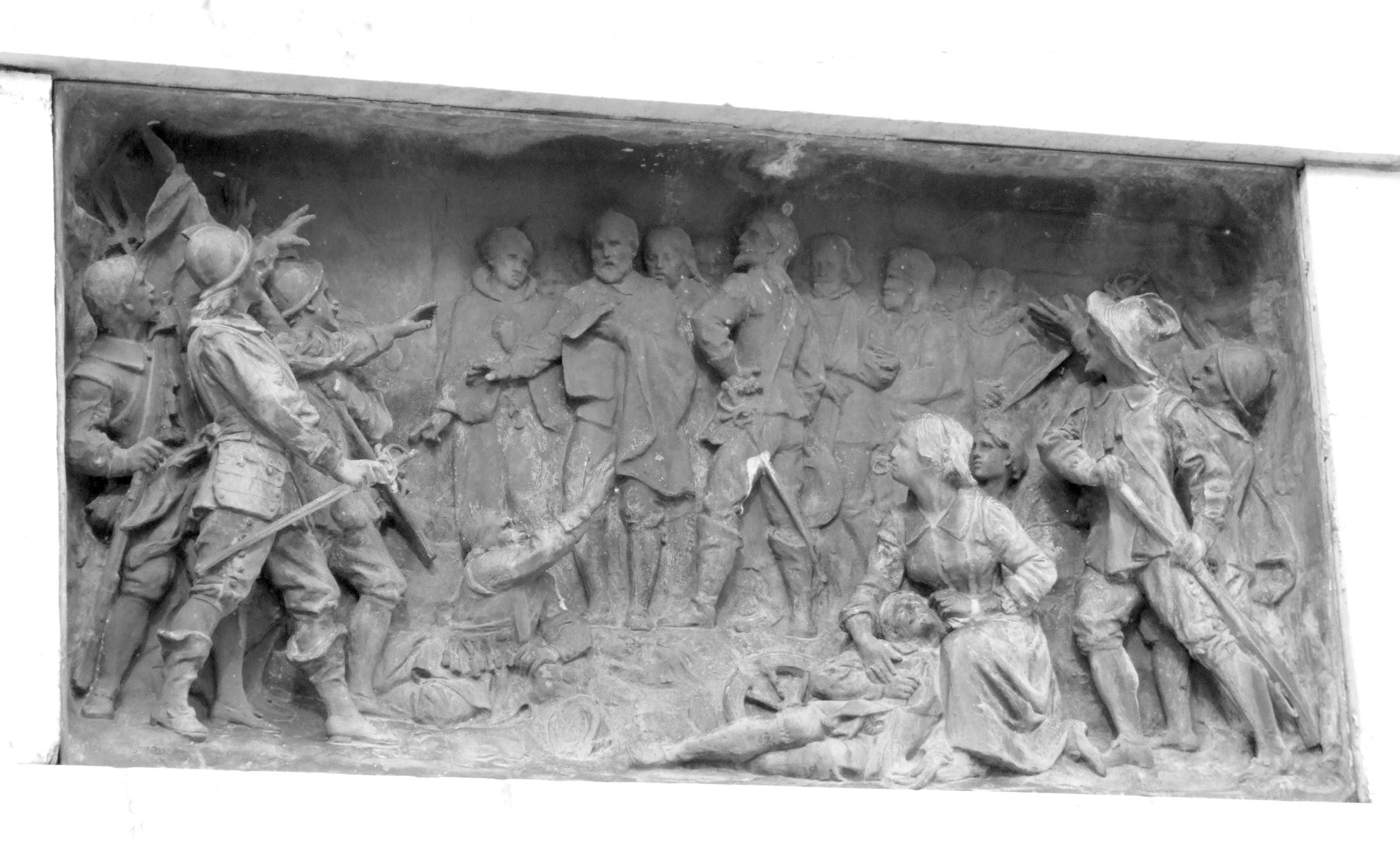 Saint-Jean de Losne, Burgundy, FRANCE